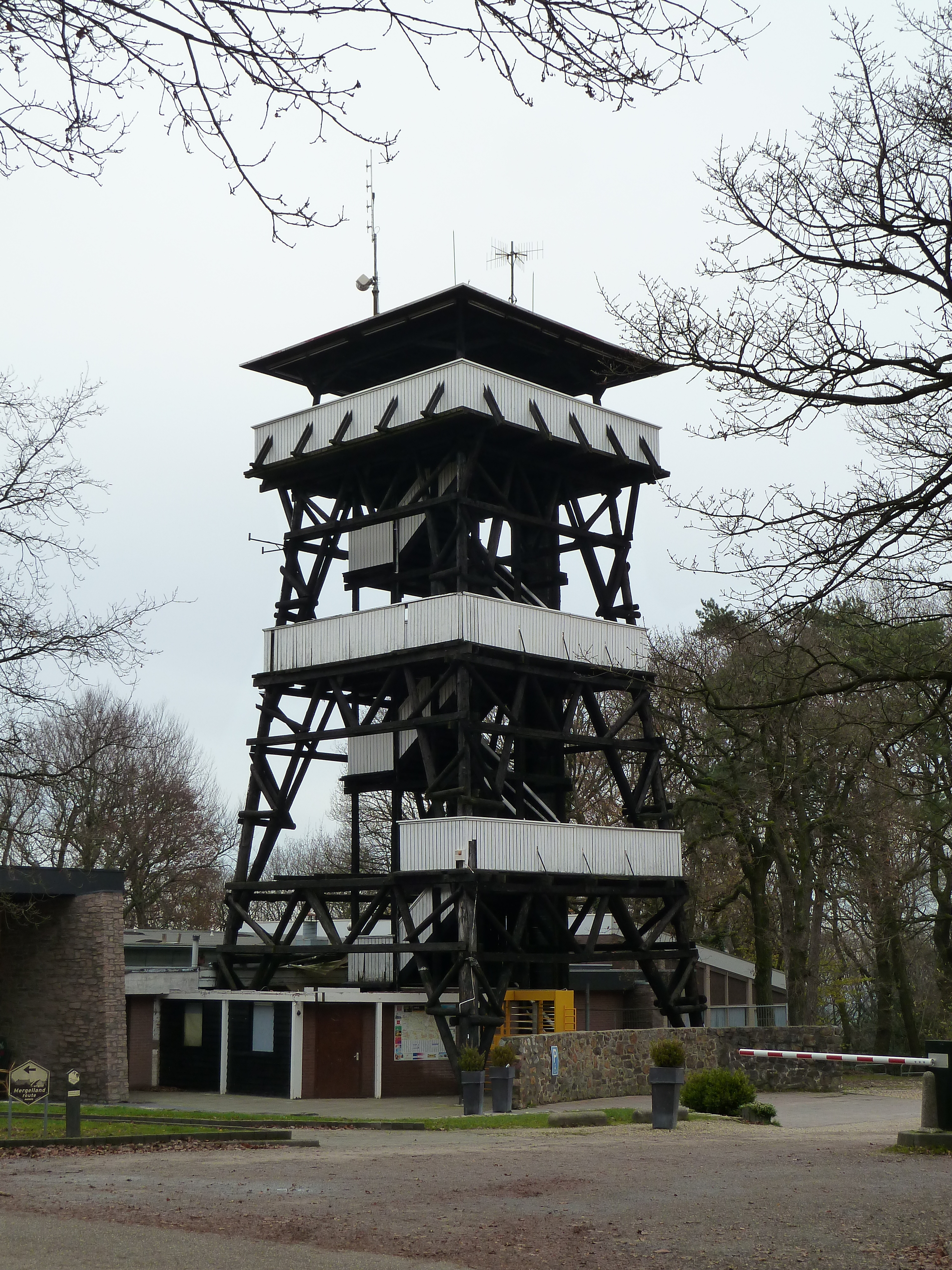 Wilhelminatoren on Vaalserberg, Vaals, Limburg, the Netherlands